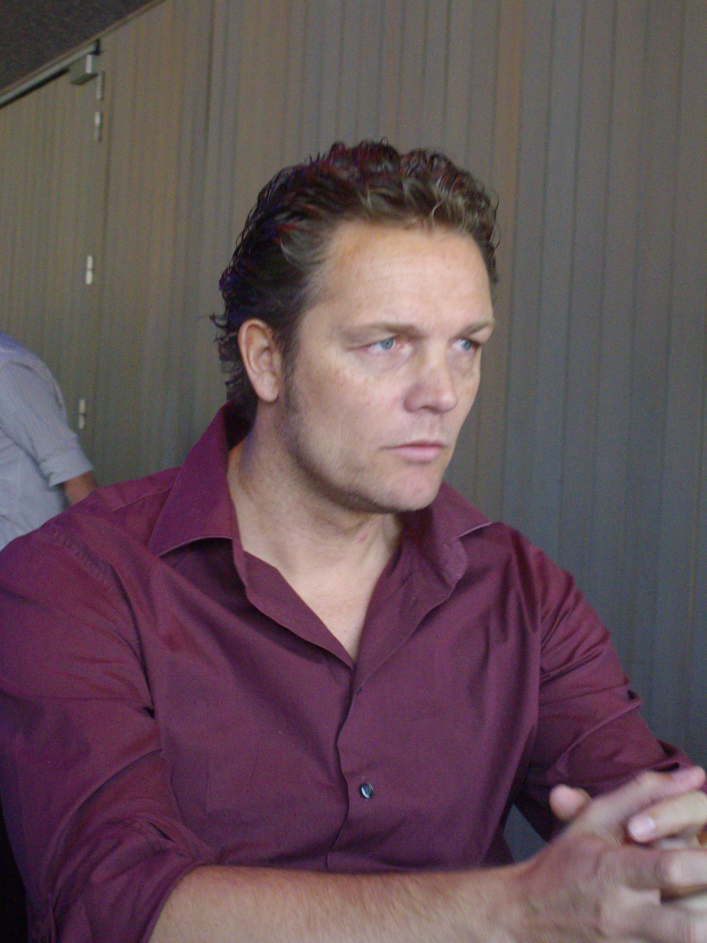 Former German football striker Olaf Bodden.